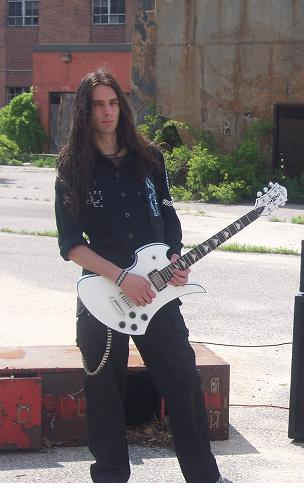 Danny Marino of The Agonist behind the scenes at The Agonist's video shoot for the song Business Suits and Combat Boots in June 2007. Photo taken by Laura db85